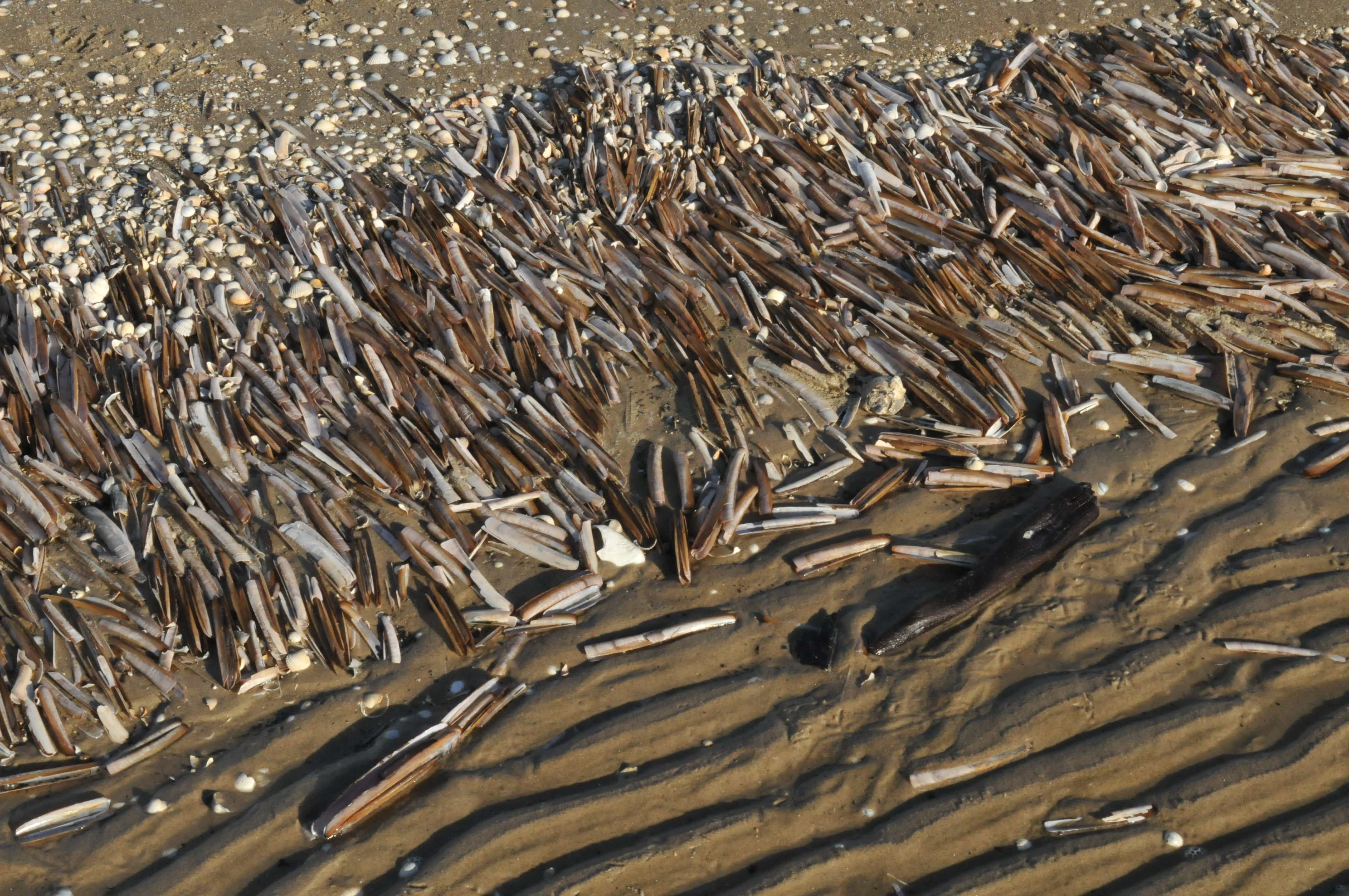 Atlantic jackknife clams (Ensis directus)